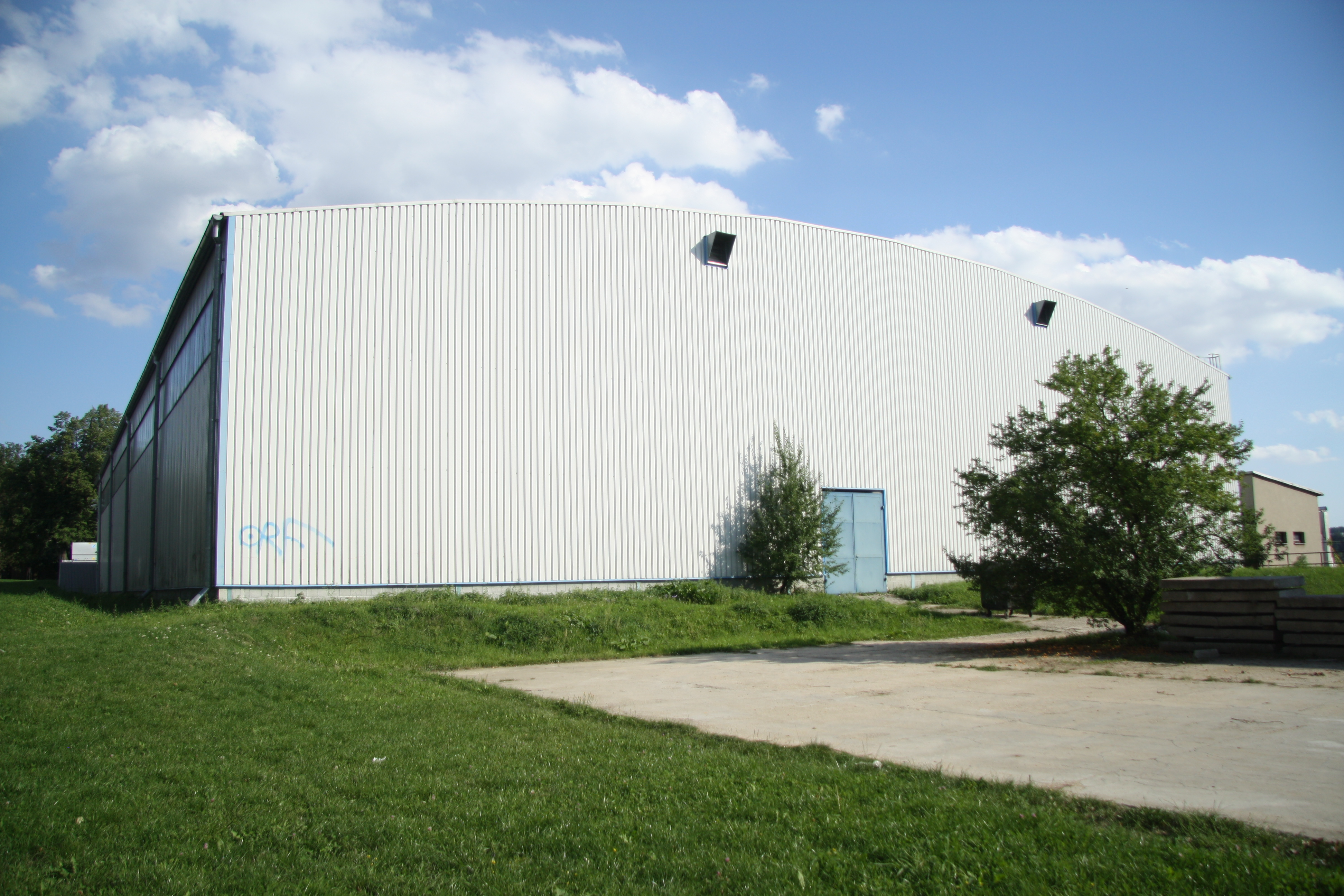 Overview of Ice hockey venue in Velká Bíteš, Žďár nad Sázavou District.